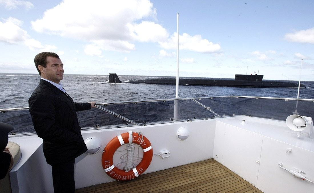 Dmitry Medvedev near Yury Dolgorukiy submarine in Severomorsk